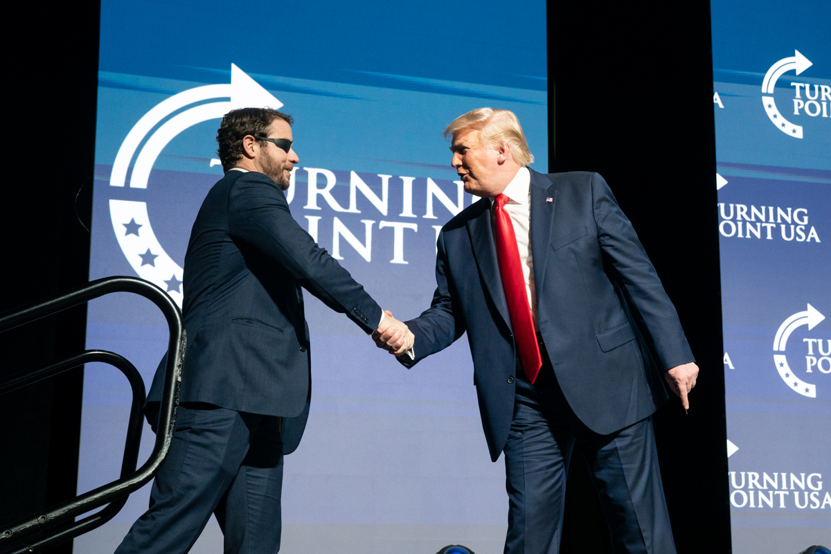 President Donald J. Trump shakes hands with Texas Congressman Dan Crenshaw, R-Texas, Saturday, Dec. 21, 2019, at Turning Point USA’s 5th annual Student Action Summit at the Palm Beach County Convention Center in West Palm Beach, Fla. (Official White House Photo by Shealah Craighead)